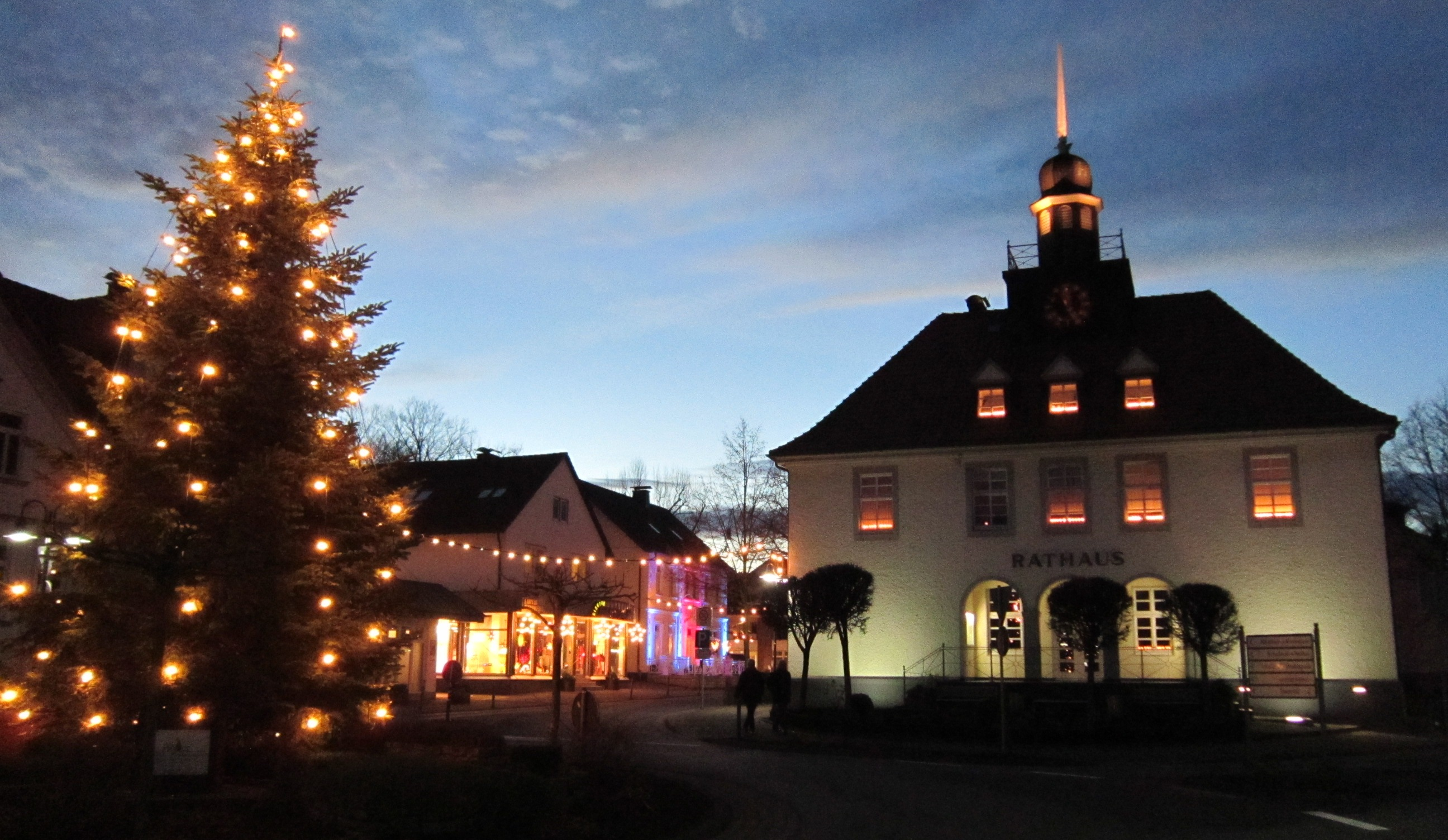 Bad Essen town hall